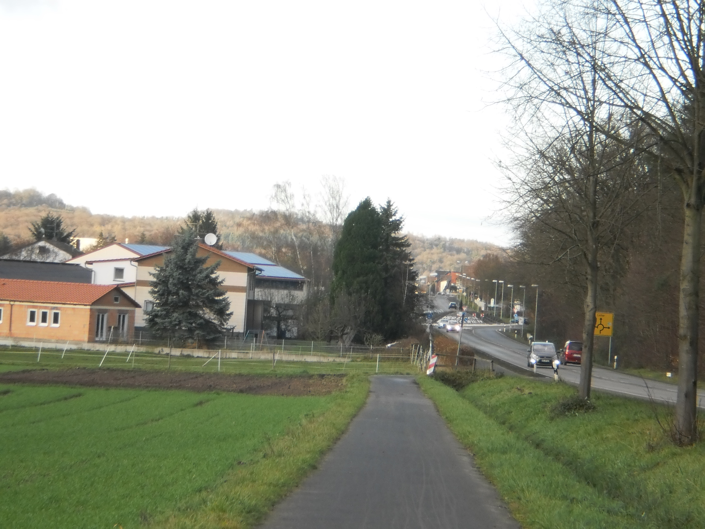 The bikeway between Lollar (here in the photo) and the city Gießen.